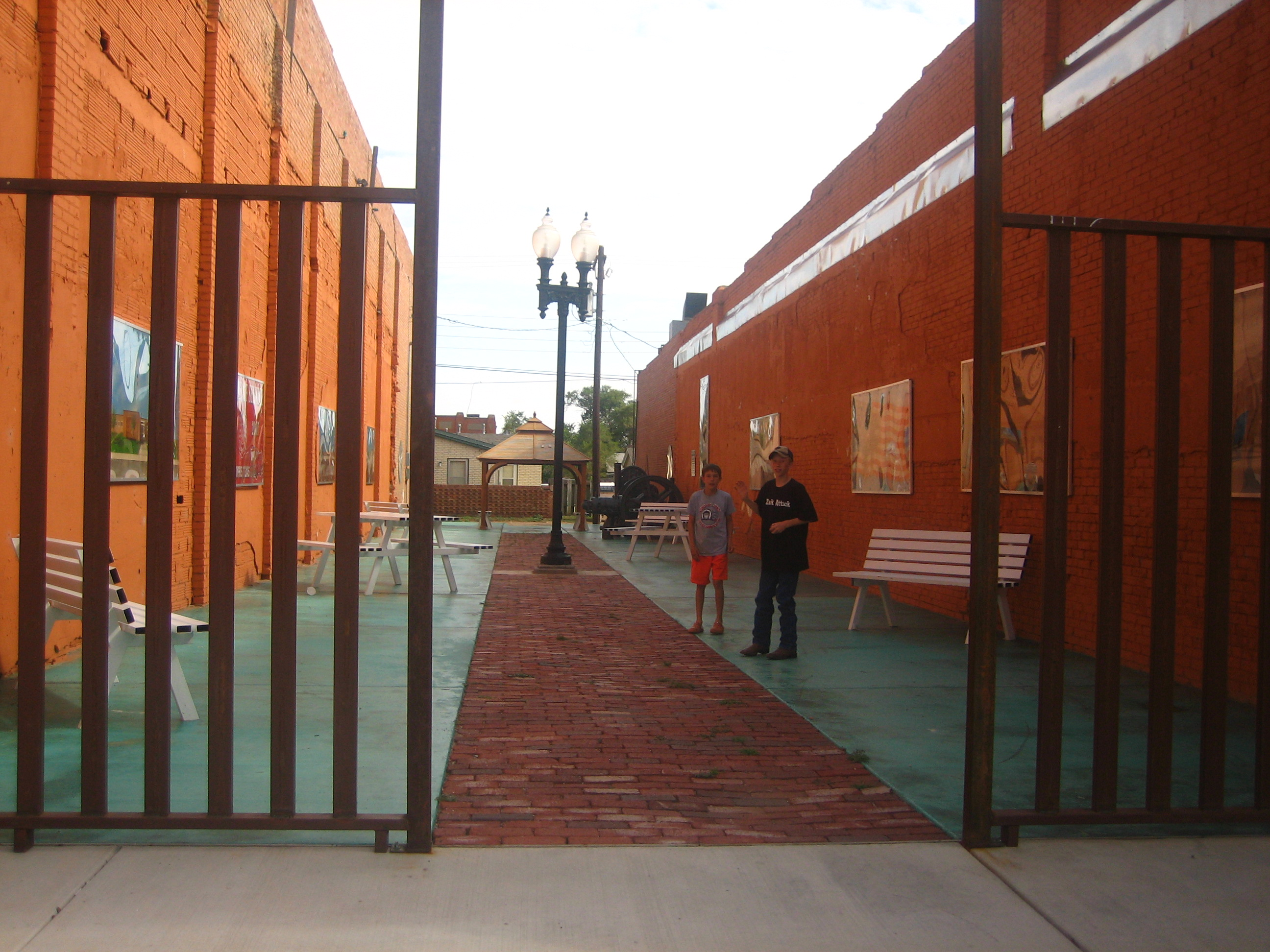 Two boys standing in Les Sims Memorial Park, a small, brick and concrete park at approximately 504 W. Noel St. (Texas SH 256), on the courthouse square, Memphis, Texas